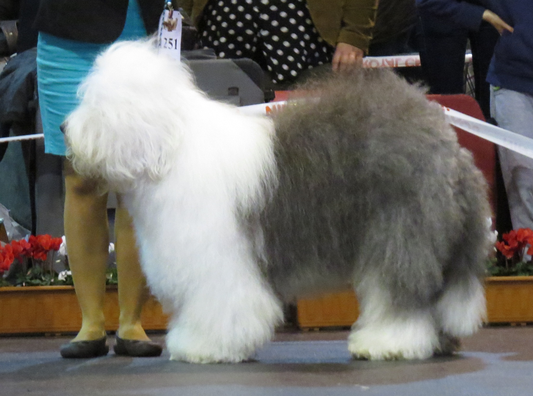 Riga, Baltic Winner -2013, 9-10 Nov